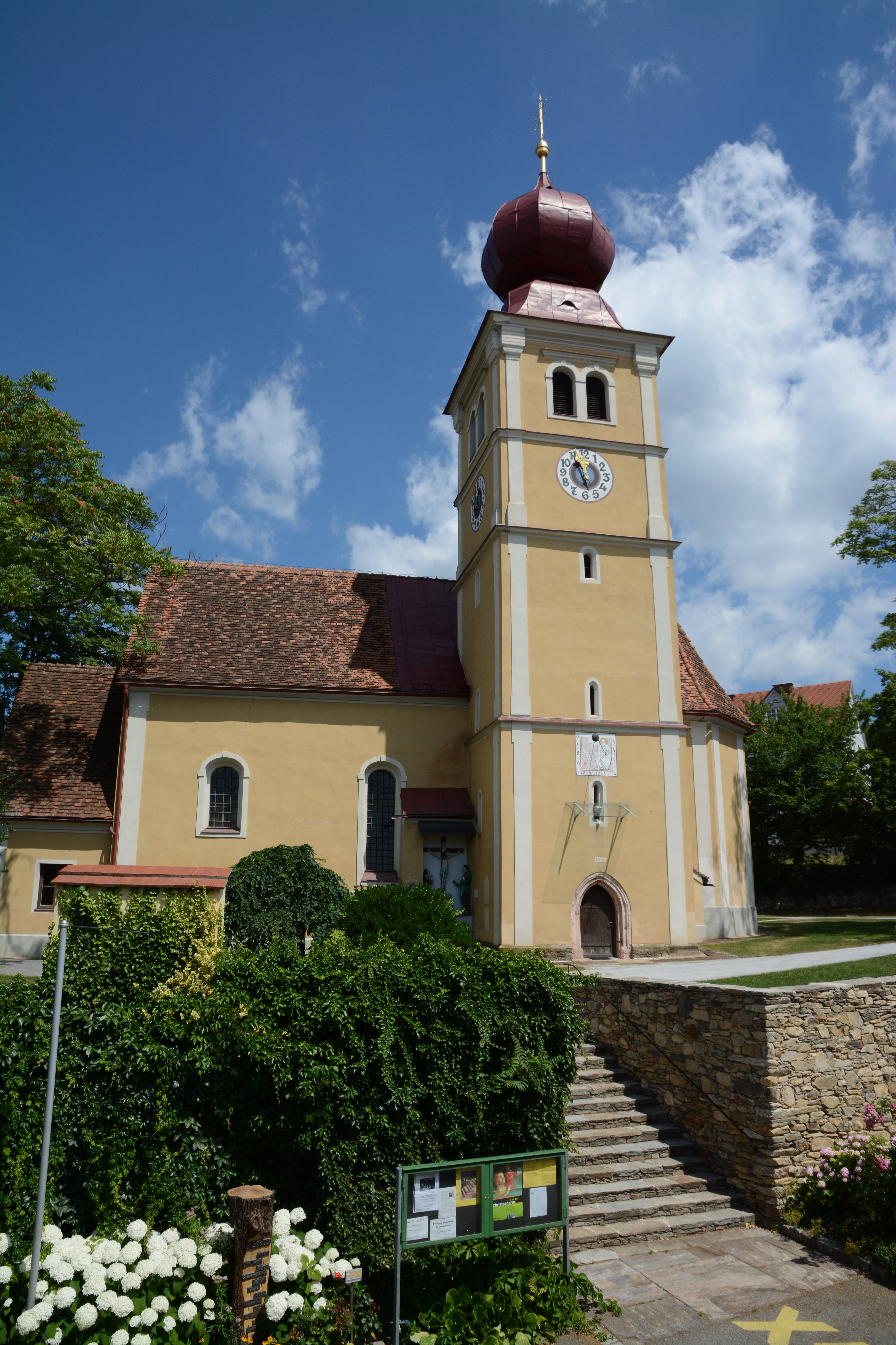 Church Puch bei Weiz